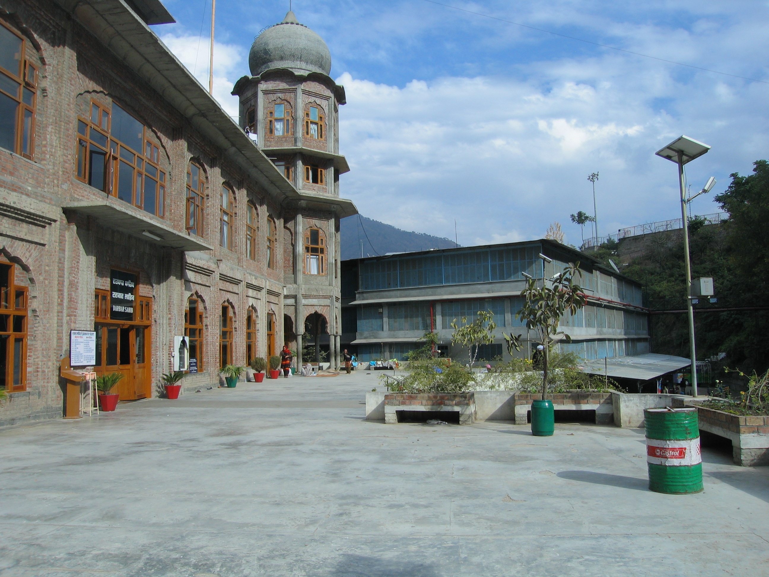 Baru Sahib Darbar Ground